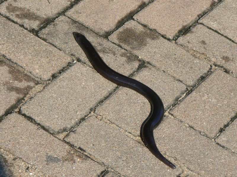 Largest legless skink - appeared wriggling furiously on the drive in the middle of camp." Kruger National Park, South Africa.